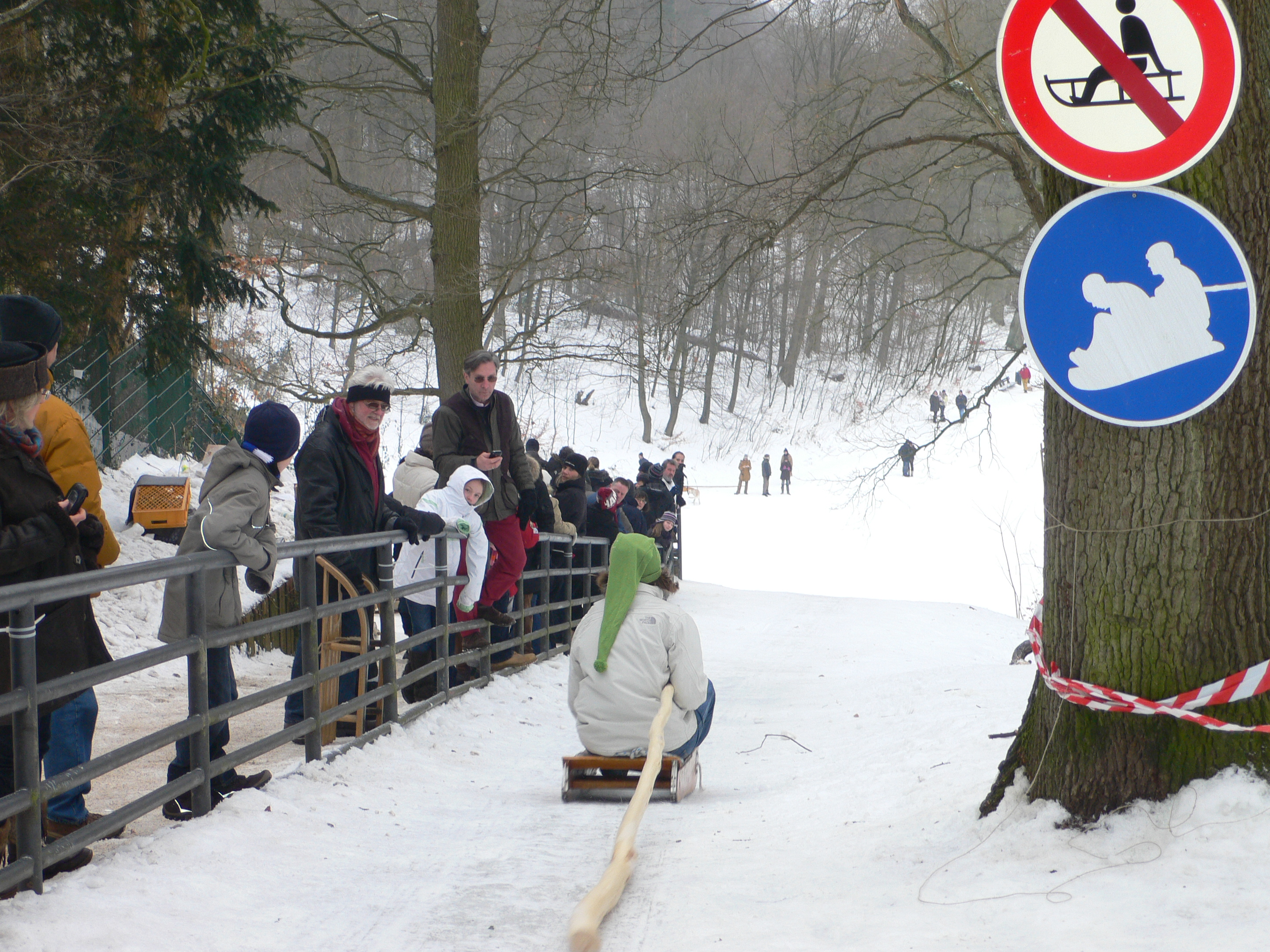 Makeshift sign to prohibit the use of sleds on a hill used by Kreeken